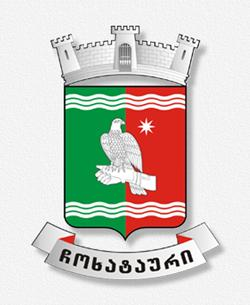 Coat of arms of Chokhatauri municipality